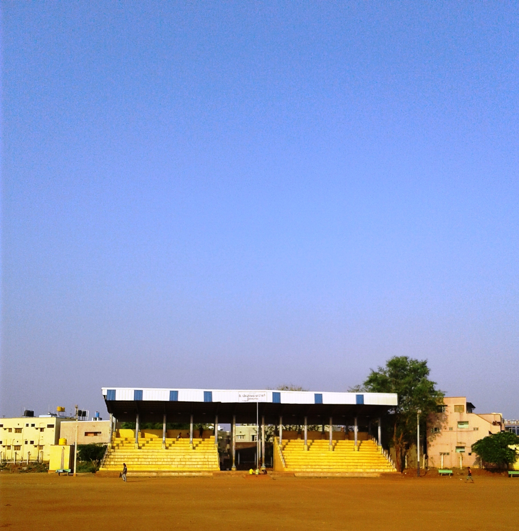 Gundlupet, Chamarajanagar District, Karnataka state, India.